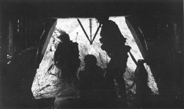 BIT 2/9 command group, with LtCol Austin, disembarks from Jolly Green 43 on the west coast of Koh Tang, south of the perimeter of Company G.